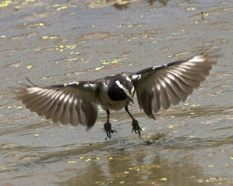 White-browed Wagtail - in flight, landing (front view) Motacilla maderaspatensis Jahangir University, Dhaka, Bangladesh 30th. April 2007 Alt. names Large Pied Wagtail, Large Pied-Wagtail, White browed Wagtail, White-browed Wagtail Hindi: kulatthhu kuruvi, Vannathi kuruvi Distribution: . Q0S4744